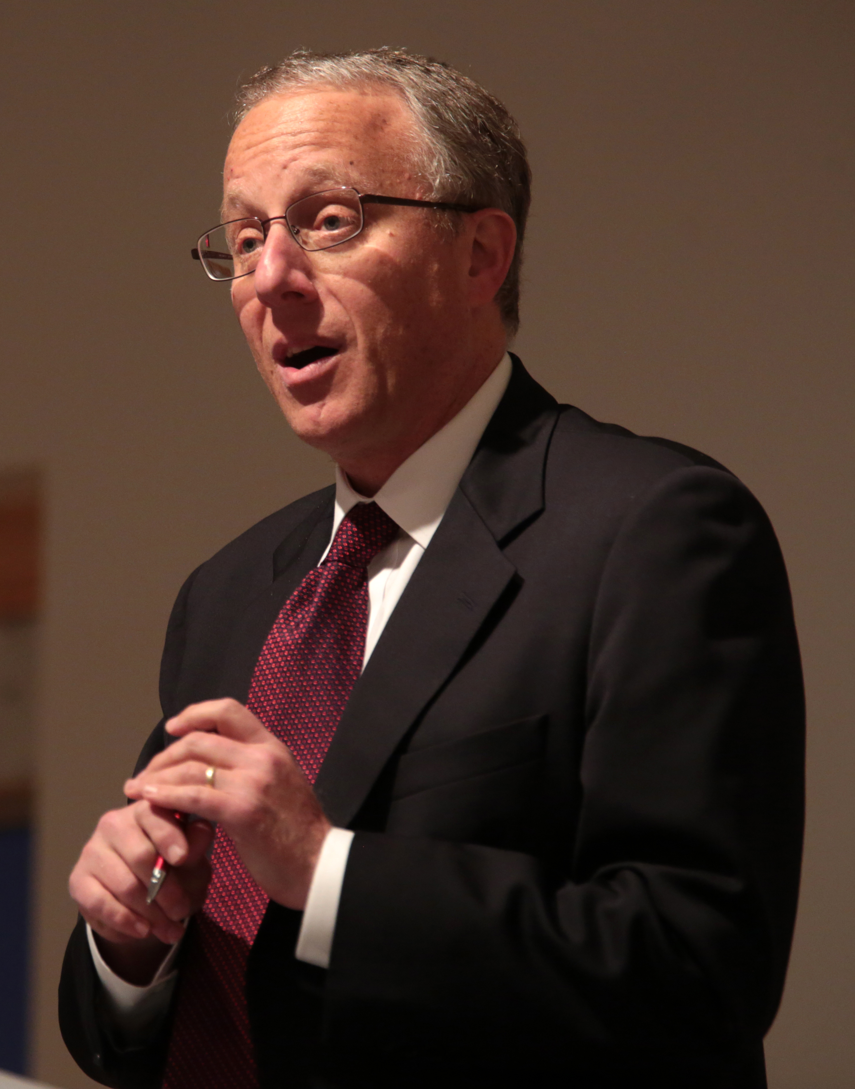 Daniel Kessler speaking at an event in Tempe, Arizona.